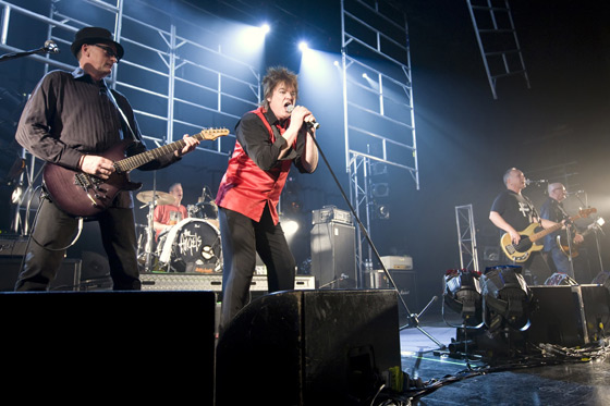 The Forum, November 2008 See the full gallery: [1]